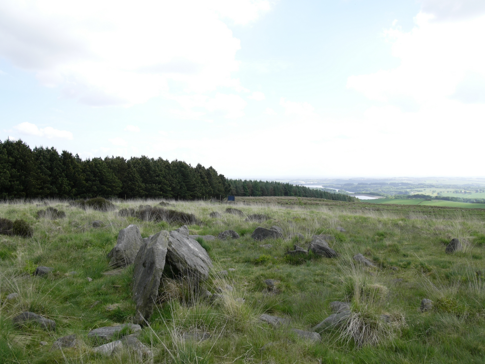 Pikestones